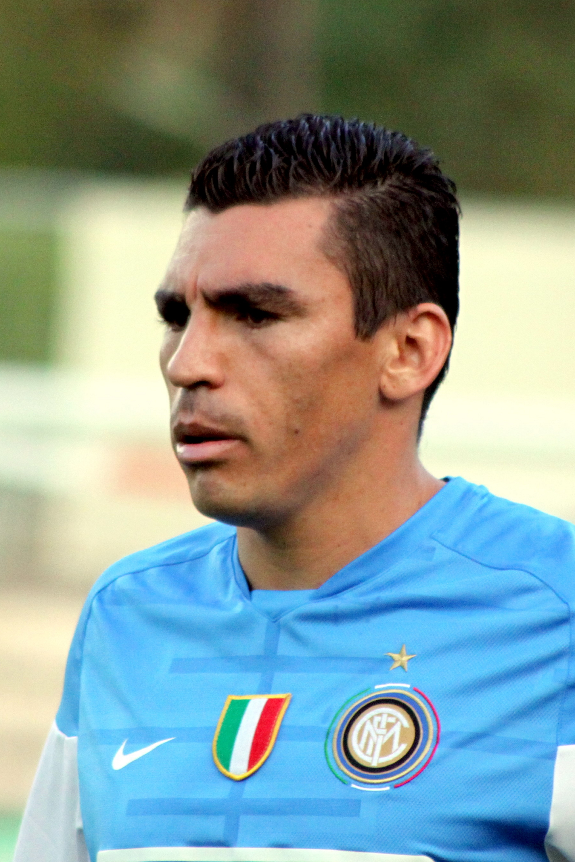 Lúcio - F.C. Internazionale Milano.